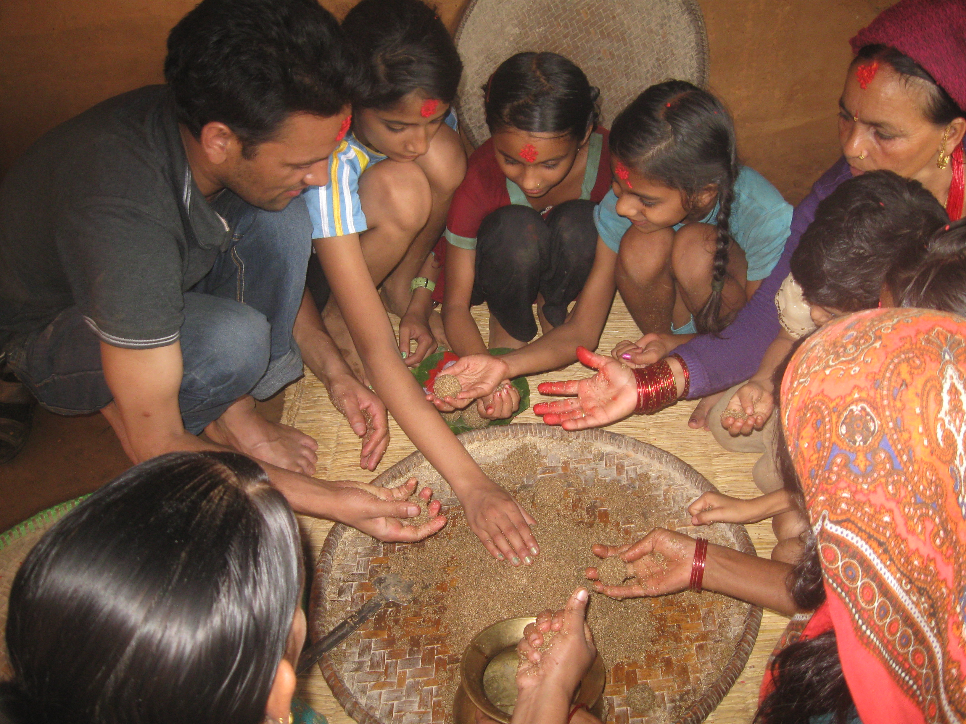 A kind of food item made specially in wedding and upanayana ceremony in Nepal.